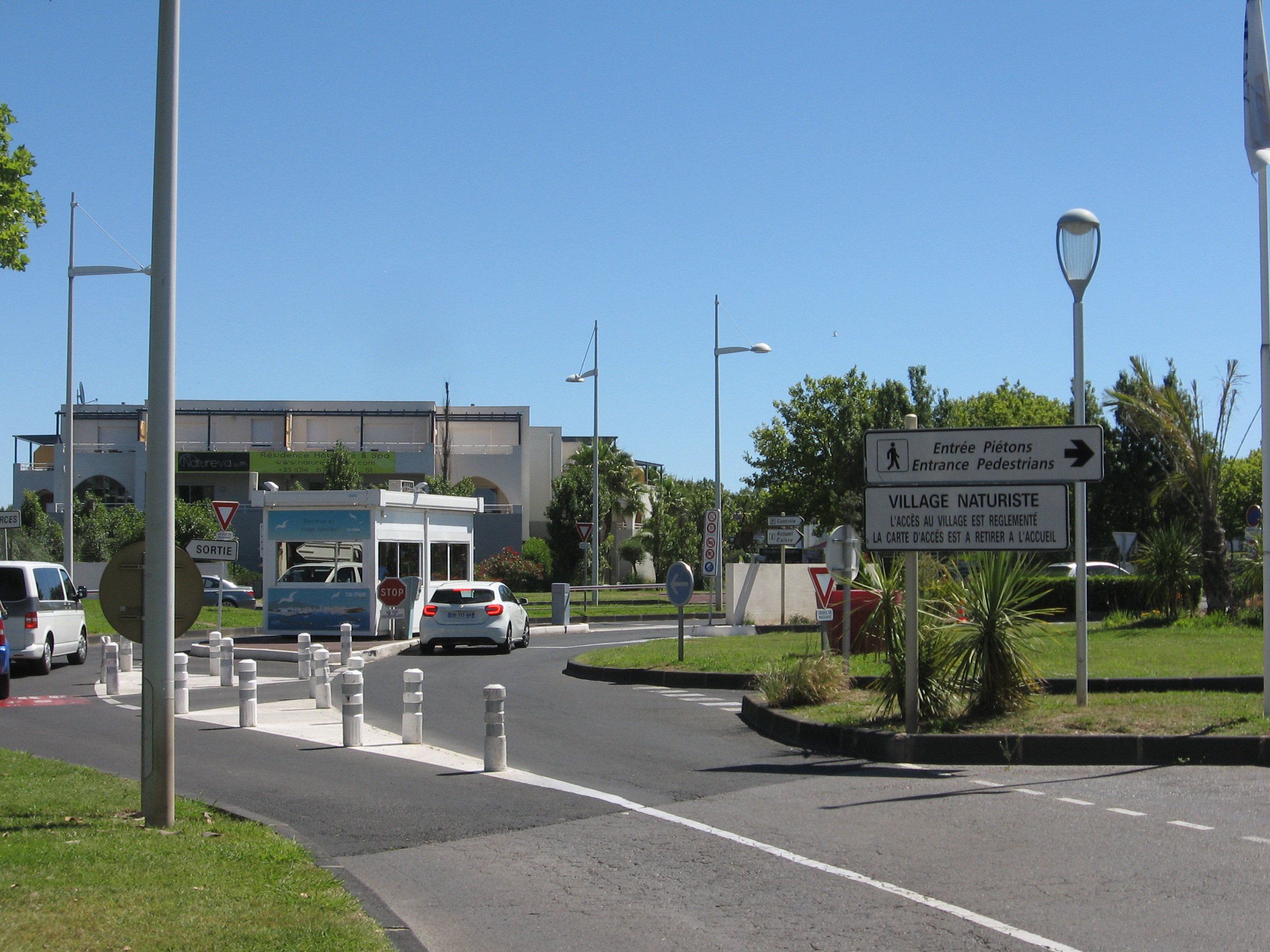 Gate Village Naturiste in Cap D'Agde